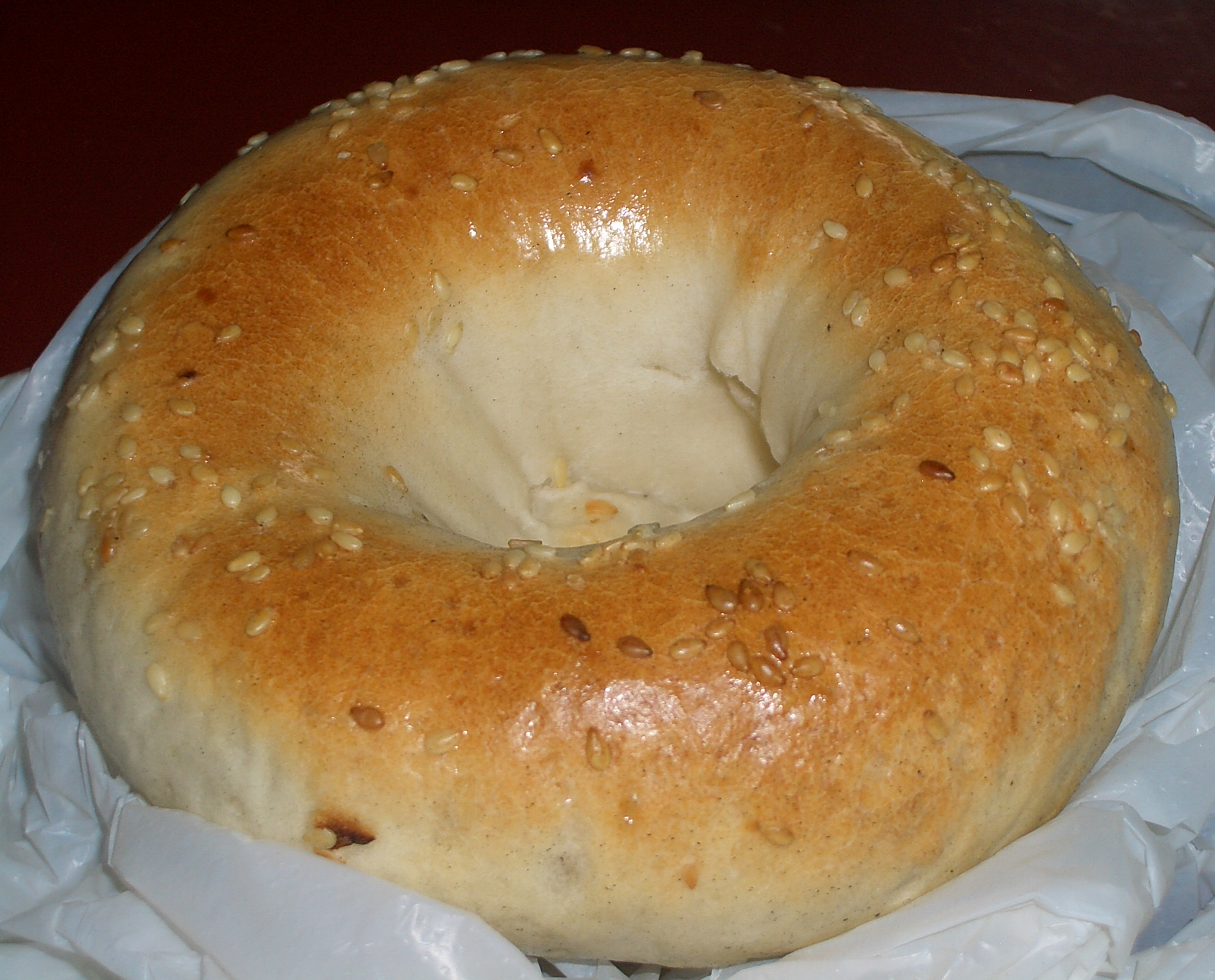 A pseudo-bagel from "Guangzhou Nur Bostani Muslim Restaurant", a halal eatery near Guangzhou's main mosque